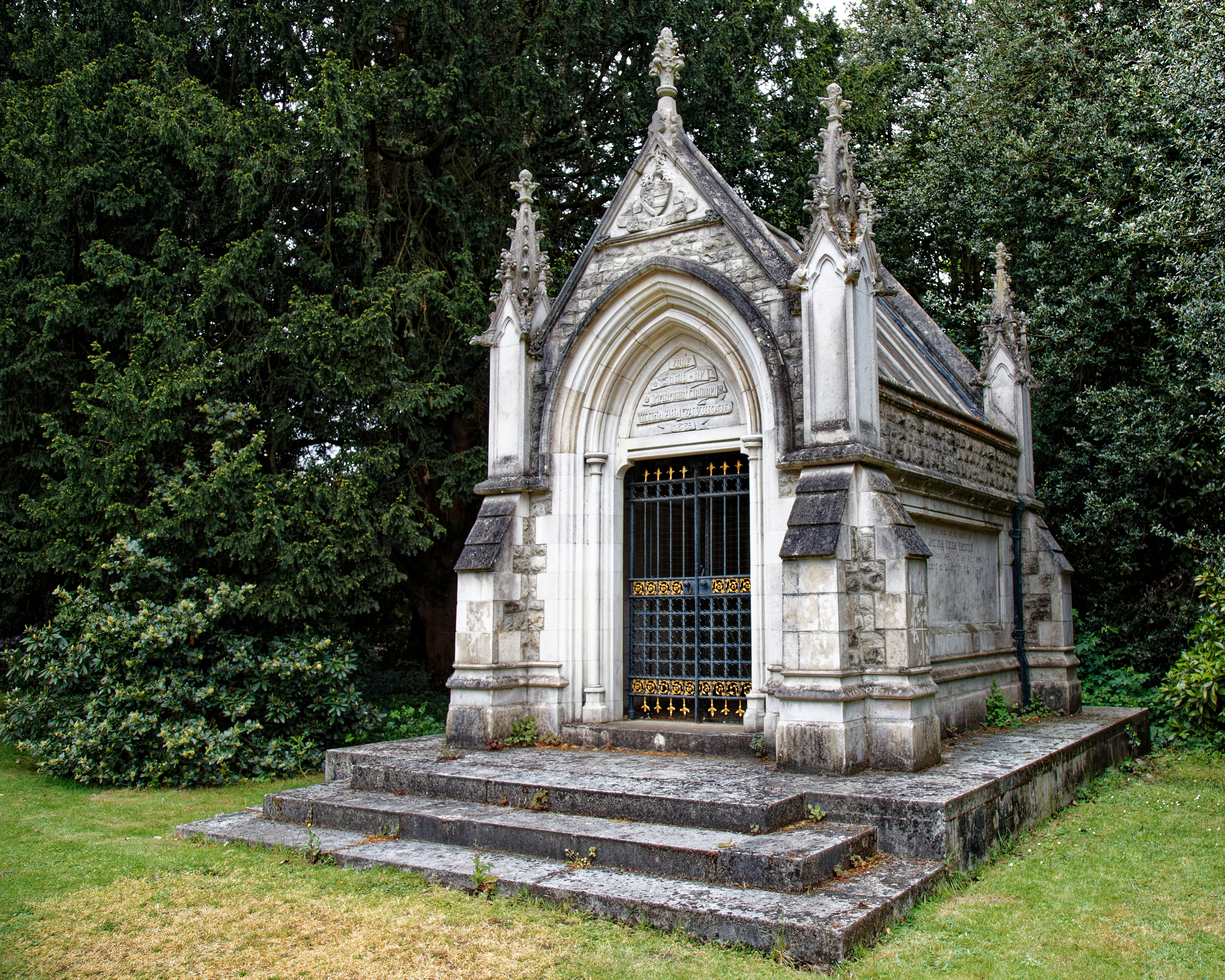 The 1889-constructed buttressed, crocketed and pinnacled tomb holding the ashes of Lieutenant Colonel William Haywood (1821-1894), the tomb also including the ashes of his wife Jemima Emma (1841-1896), at the City of London Cemetery, Newham, London, England. The City of London Cemetery was laid out to the designs of William Haywood, who also aided Joseph Bazalgette in the design and improvement of the London sewerage system, and worked with James Bunning on the Holborn Viaduct.Mobile device view: Wikimedia (April 2020) makes it difficult to immediately view photo groups related to this image. To see its most relevant allied photos, click on City of London Cemetery and Crematorium, and this uploader's Photos. You can add a click-through 'categories' button to the very bottom of photo-pages you view by going to settings... three-bar icon top left.Desktop view: Wikimedia (April 2020) makes it difficult to immediately view the helpful category links where you can find images related to this one in a variety of ways; for these go to the very bottom of the page.This image is one of a series of date and/or subject allied consecutive photographs kept in progression or location by file name number and/or time marking.Camera: Canon EOS 6D Mark II with Canon EF 24-105mm F4L IS USM lens.Software: File lens-corrected, optimized, perhaps cropped, with DxO OpticsPro Elite, and likely further optimized with Adobe Photoshop CS2.